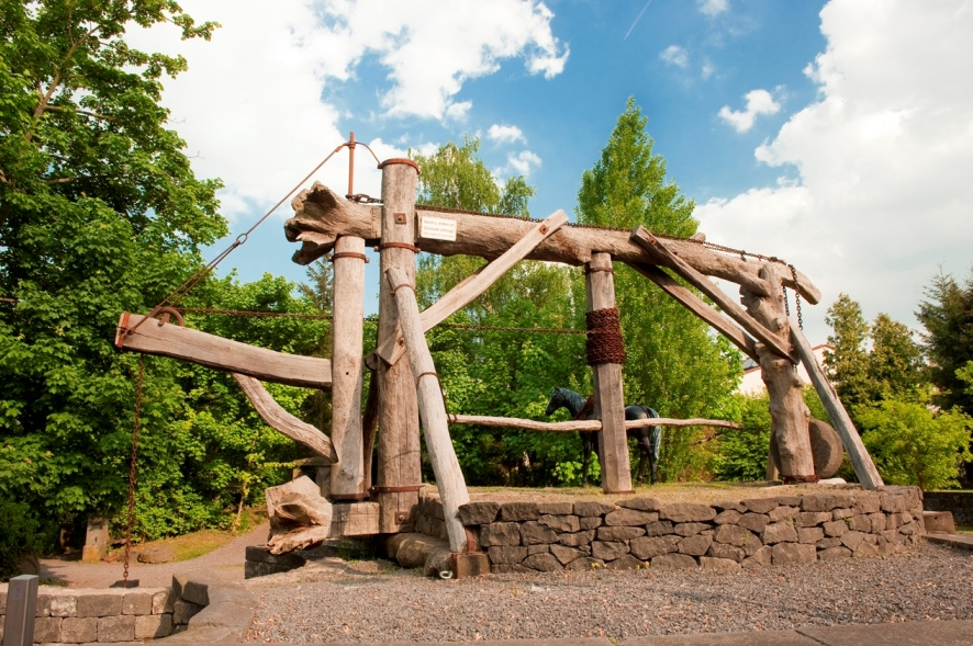 Göpelwerk